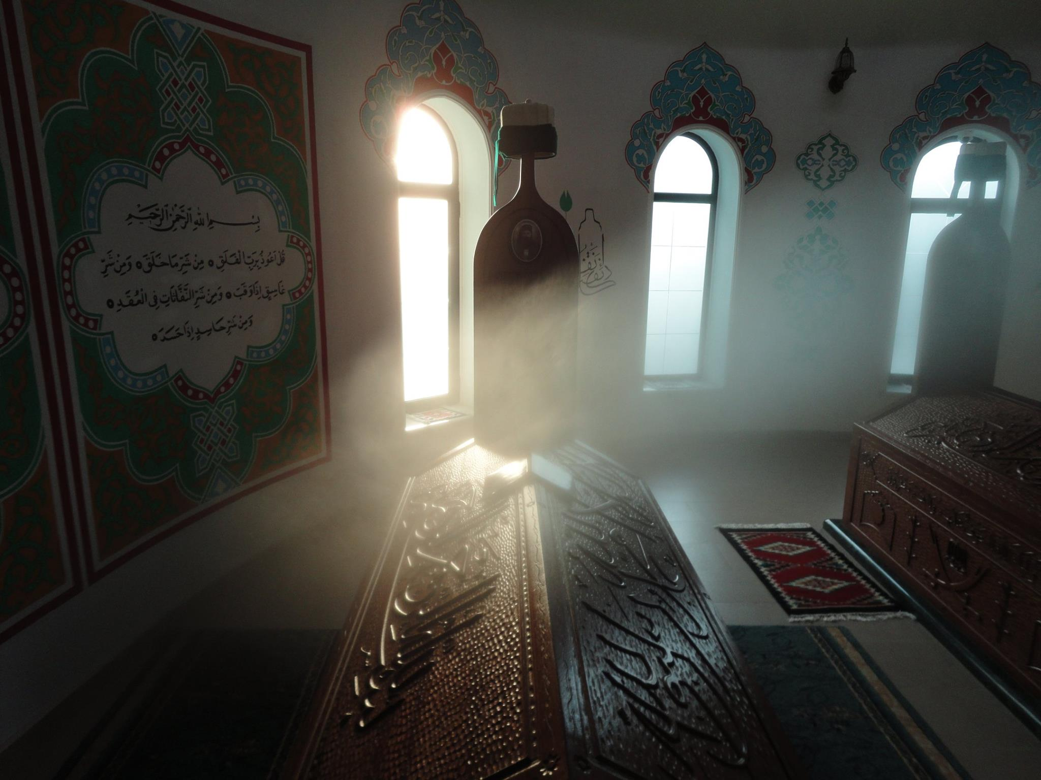 Dede Ahmeti, Tyrbe